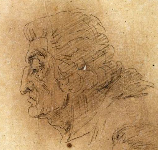 Portrait of Jean-Baptiste-Joseph Gobel (1727-1794), Bishop of Paris in 1792-93, sketched on the way to the guillotine, April 12, 1794.